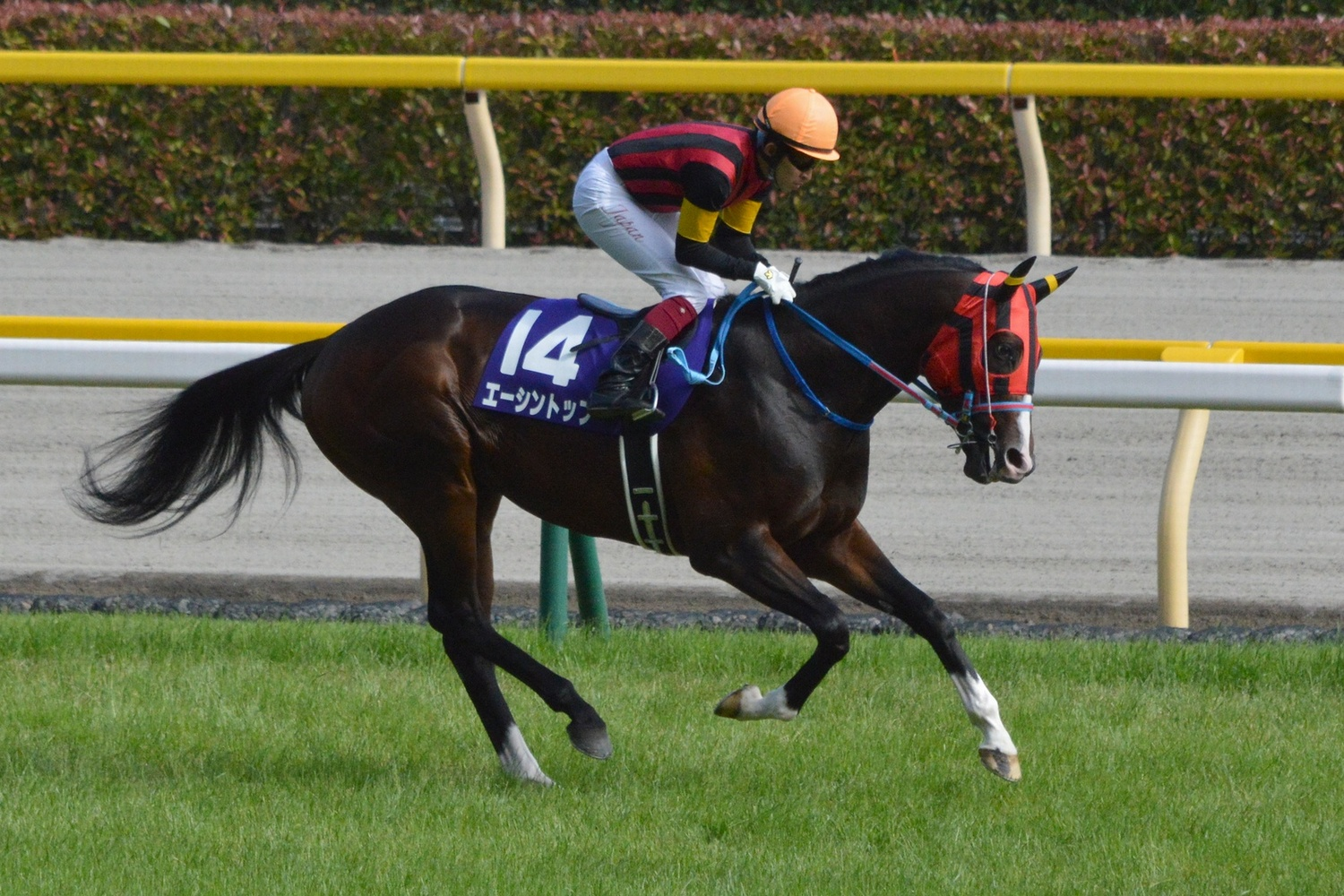 Japanese race horse A Shin Top at Tokyo racecourse. Tokyo (JPN) 2 Jun 2013 Yasuda Kinen (Grade 1) (3yo+) (Turf) 1m Firm RankHorse NameOddsAgeWgtTrainerJockey1stLord Kanaloa (JPN)3/1FH59-2Takayuki YasudaYasunari Iwata2ndShonan Mighty (JPN)47/10H59-2Tomoyuki UmedaSuguru Hamanaka3rdDanon Shark (JPN)36/1H59-2Ryuji OkuboCristian Demuro4th - 16th/omission17thA Shin Top (USA)25/1C38-7Masato NishizonoYuichi Fukunaga